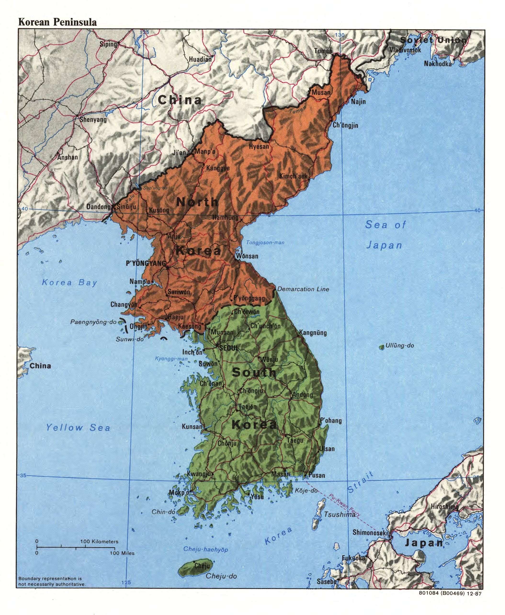 "801084 (B00469) 12-87." Relief shown by shading. Available also through the Library of Congress Web site as a raster image.